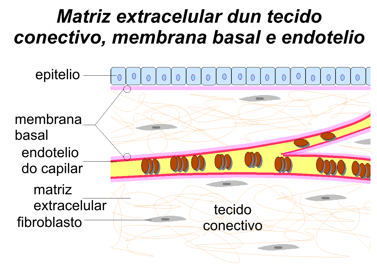 extracellular matrix with base membrane and endothelium